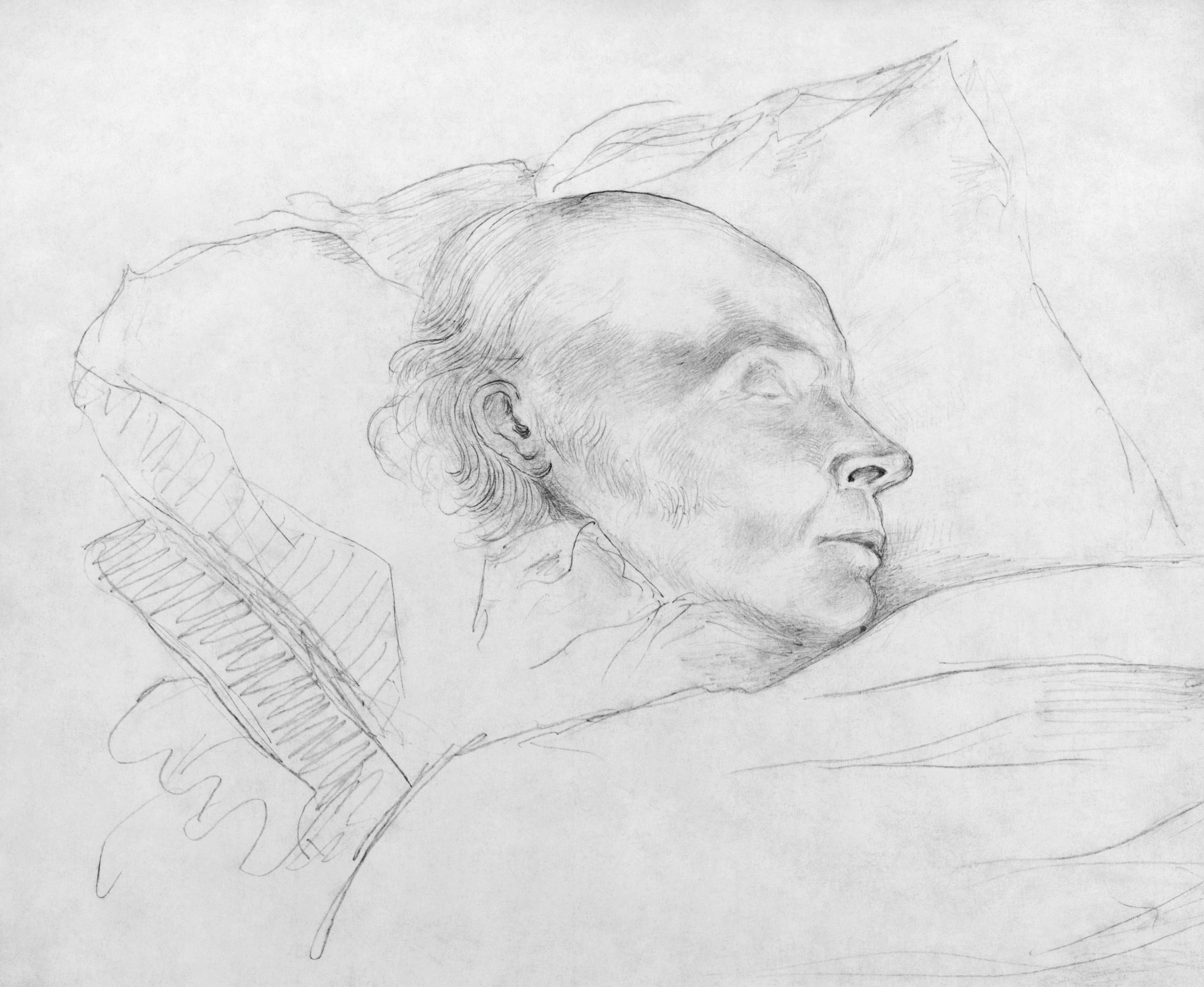 "The original sketch of Mr. Adams, taken when dying by A.J.S. in the Rotunda of the Capitol at Washington" "Sketch showing head of John Q. Adams as he lay unconscious in the Rotunda after suffering a stroke."